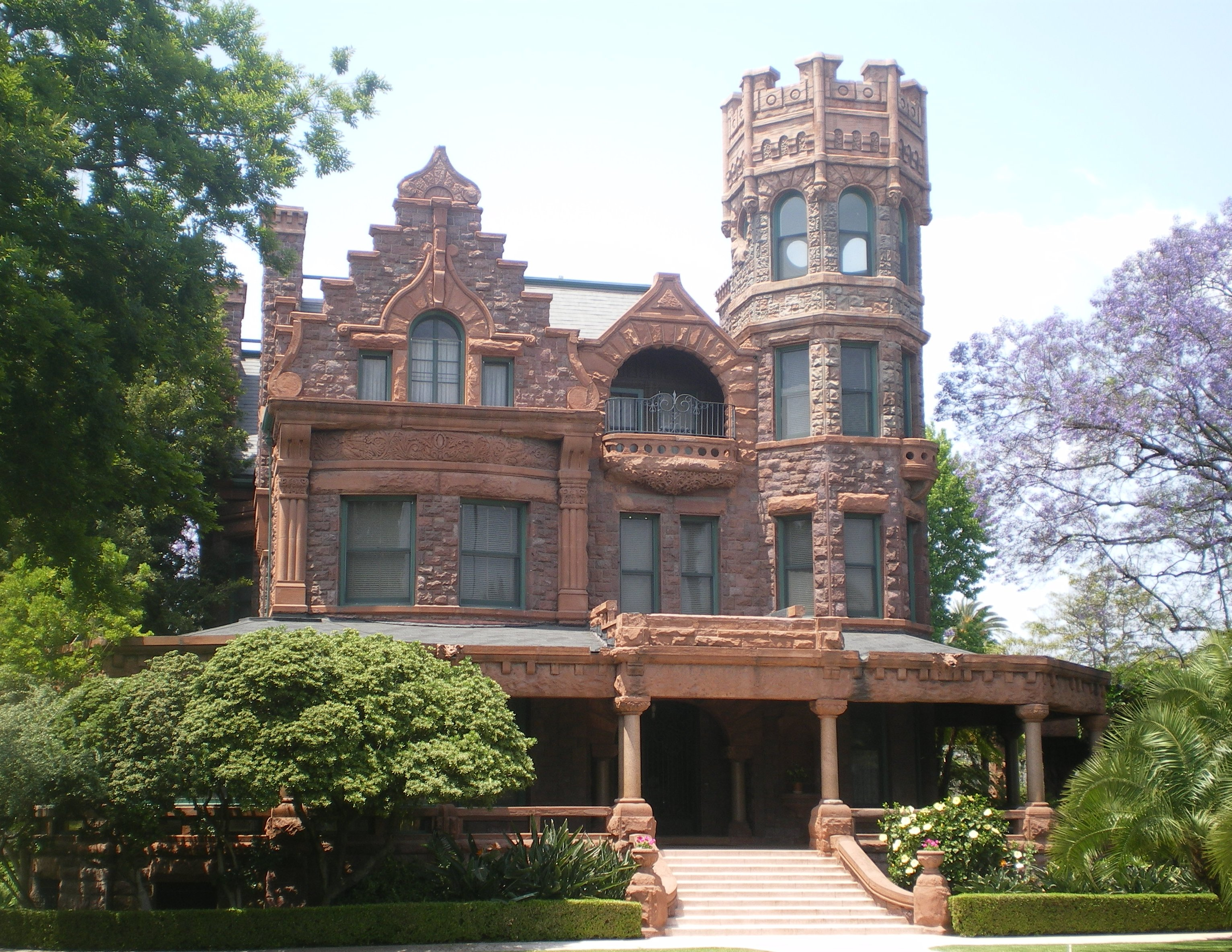 Stimson House — 2421 S. Figueroa Street, West Adams district, Los Angeles, California. 1891 Richardsonian Romanesque style stone mansion.